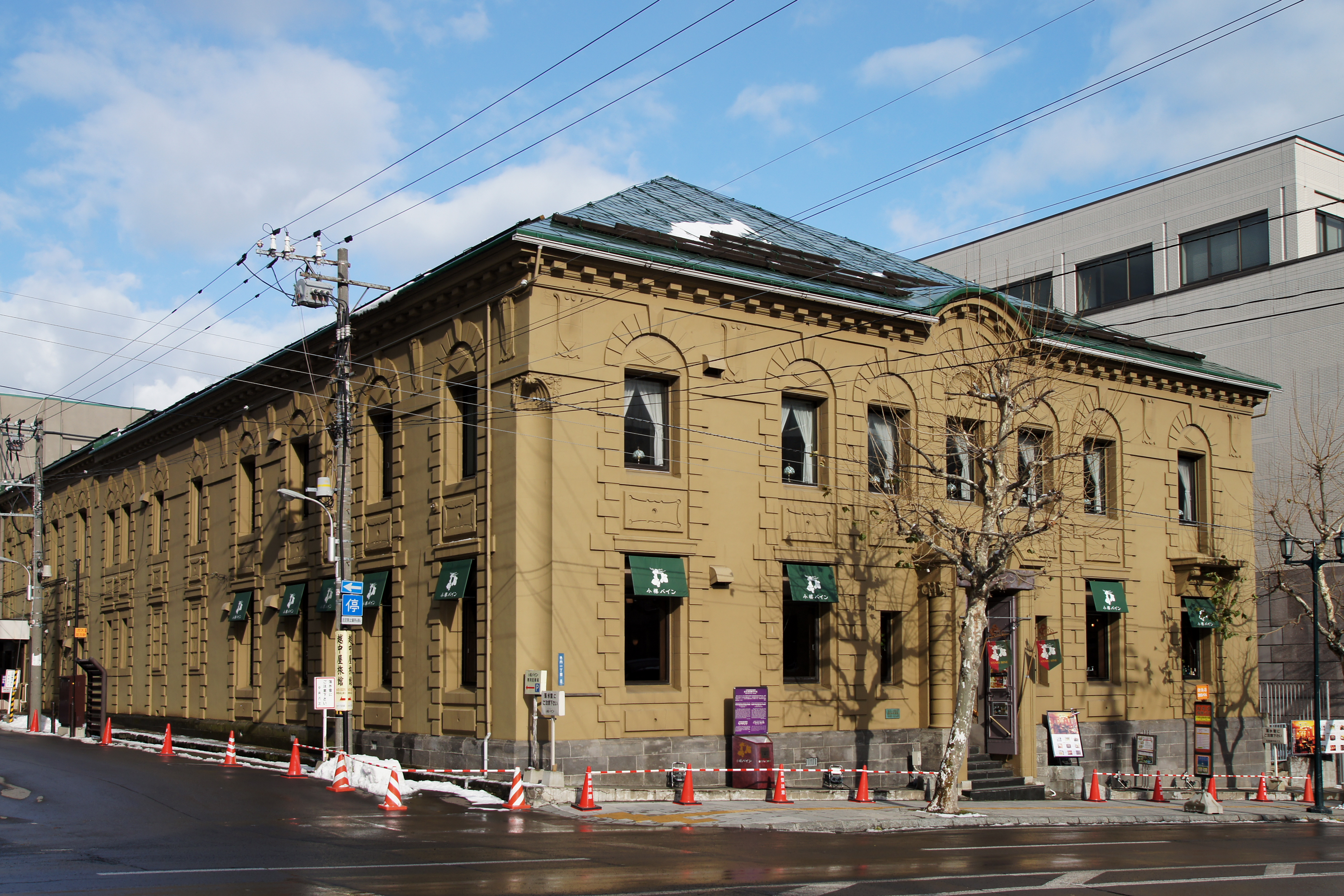 Former Hokkaido Bank, Head Office in Otaru, Hokkaido prefecture, Japan